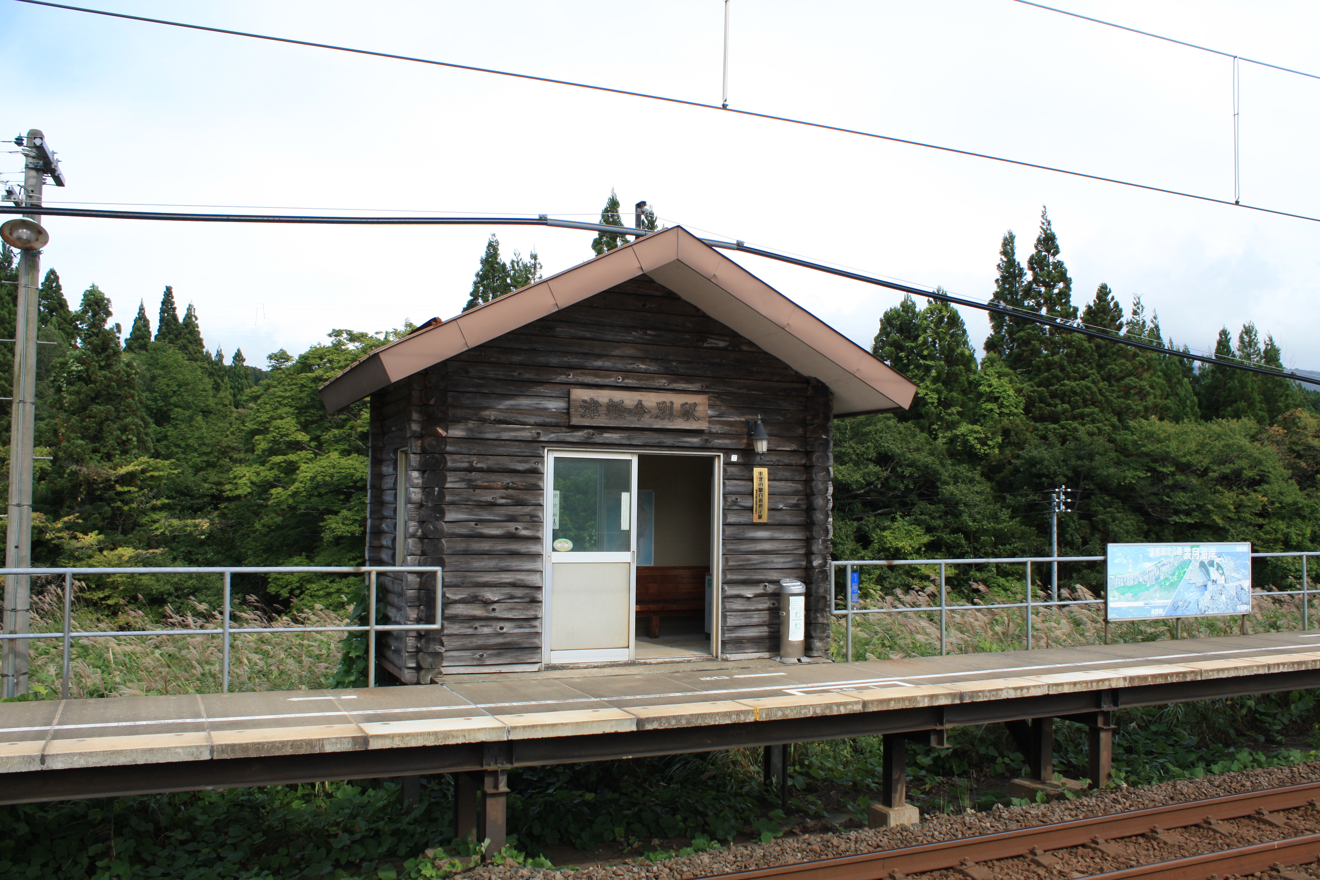 Tsugaru-Imabetsu Station in Imabetsu, Aomori, Japan. It is the station on the Kaikyō Line operated by JR Hokkaido.